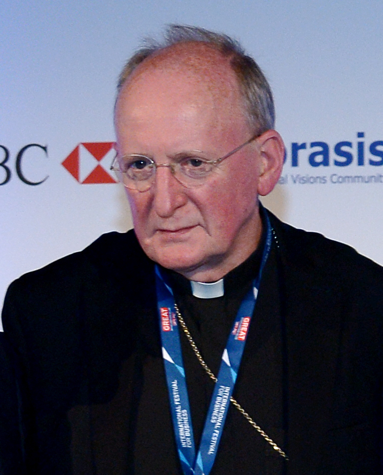 Horasis Global Meeting 2016, Liverpool, 13-14 June